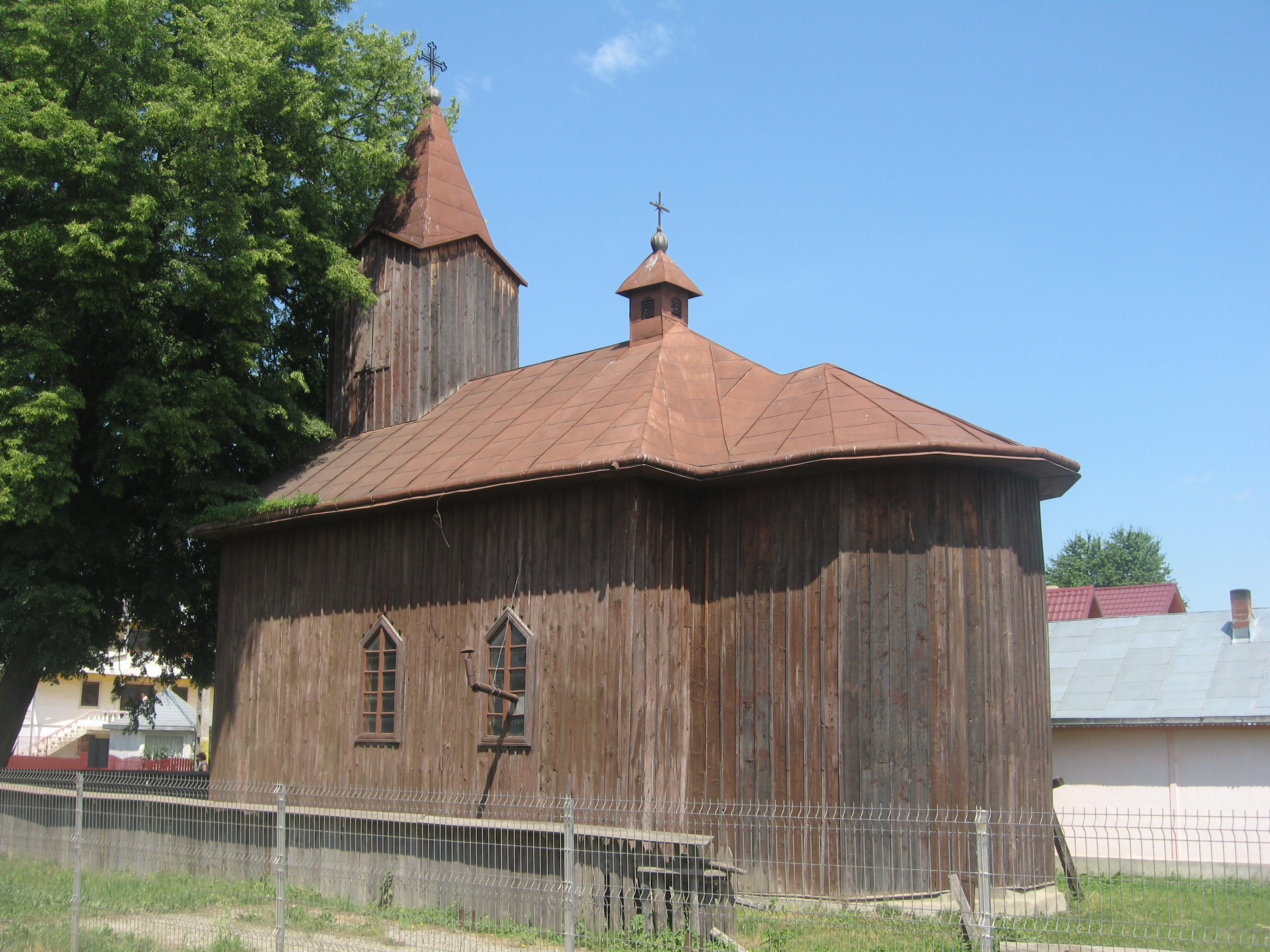 The Roman-Catholic Church in Valea Moldovei, Suceava County, Romania